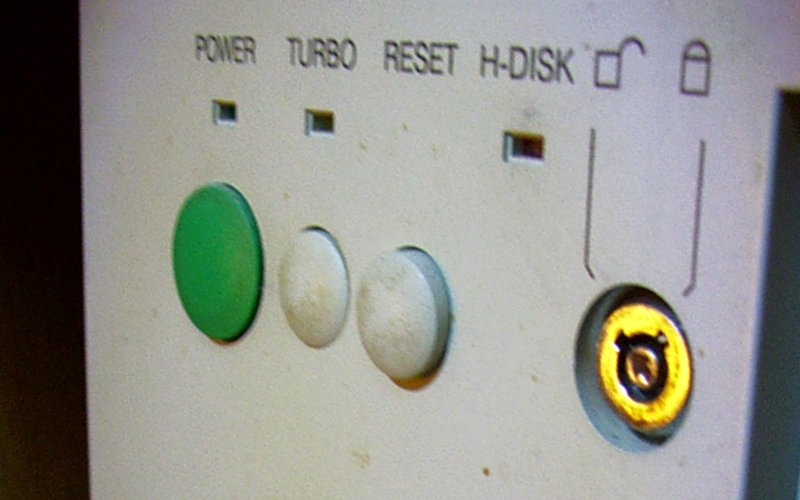 Case buttons of an old IBM PC